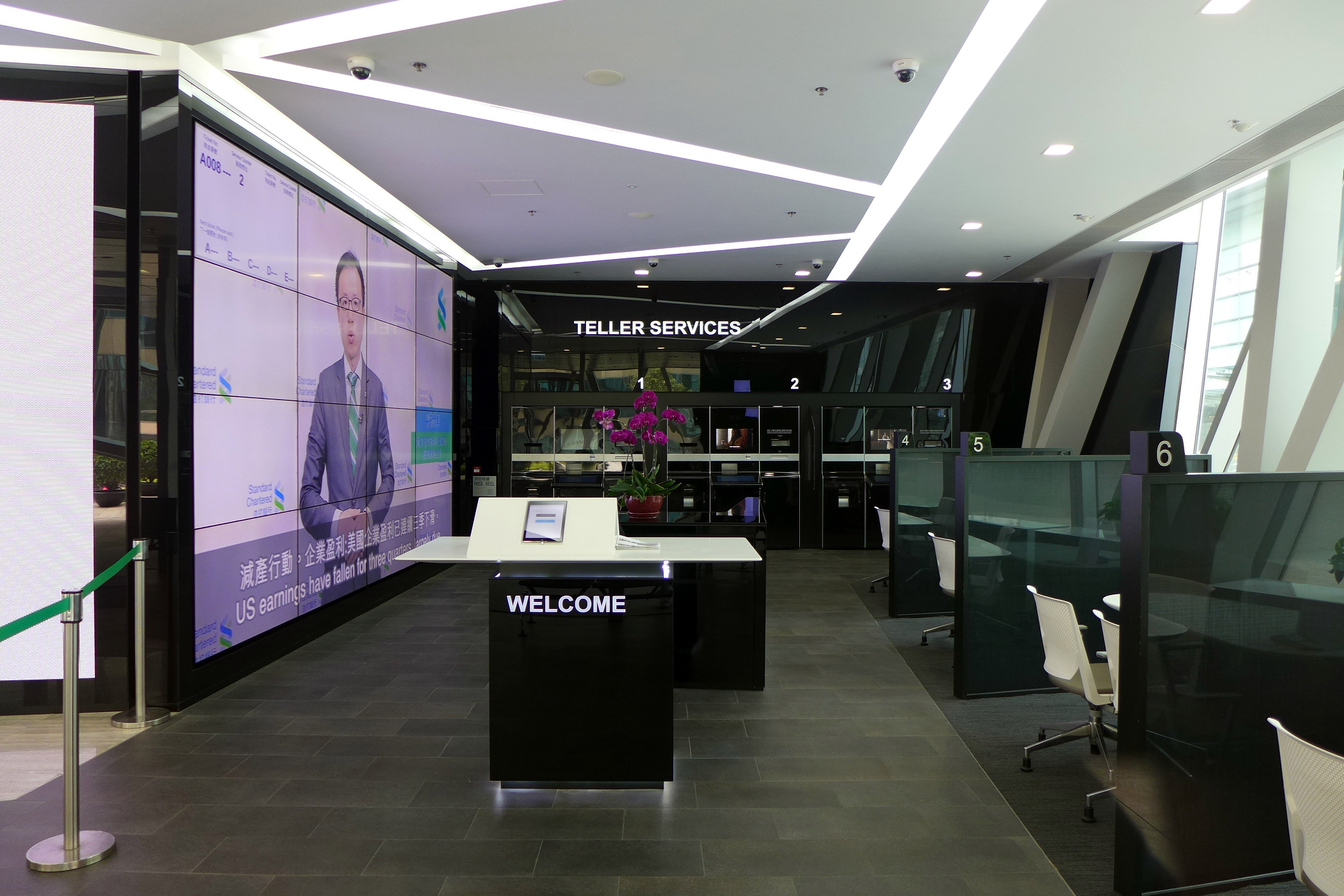 Exchange Square Standard Chartered Bank Teller Service